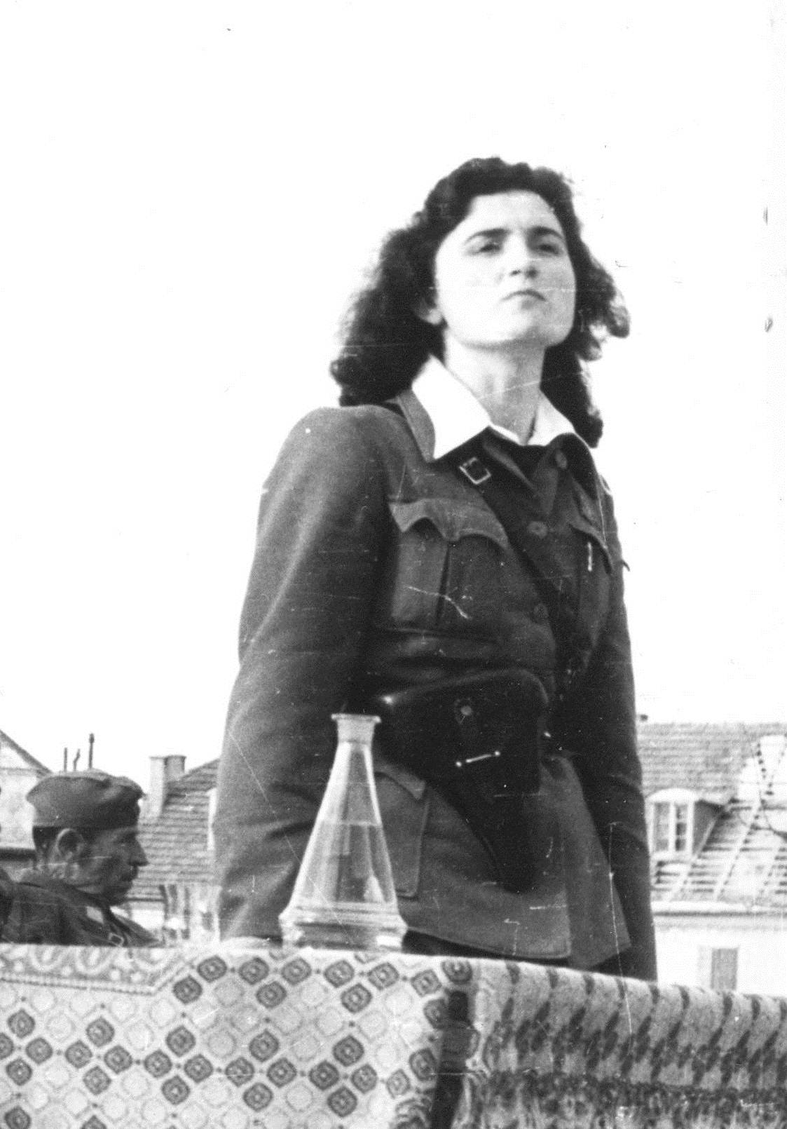 Stana Tomašević (1920–1983) was a politician in the government of Yugoslavia